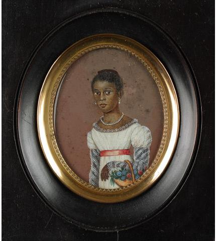 Painting medium: watercolor on ivory, gift of Miss Georgina Schuyler, Courtesy of the New York State Historical Society